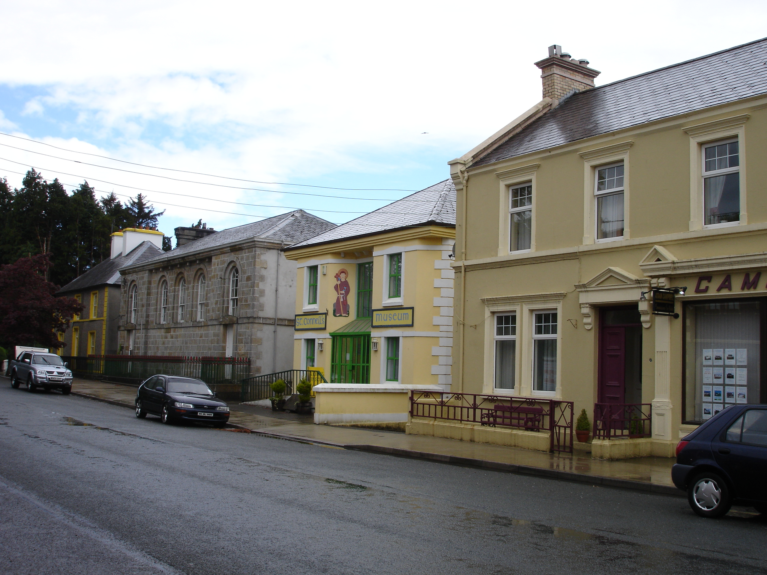 St. Connell's Museum, Glenties, County Donegal, Ireland